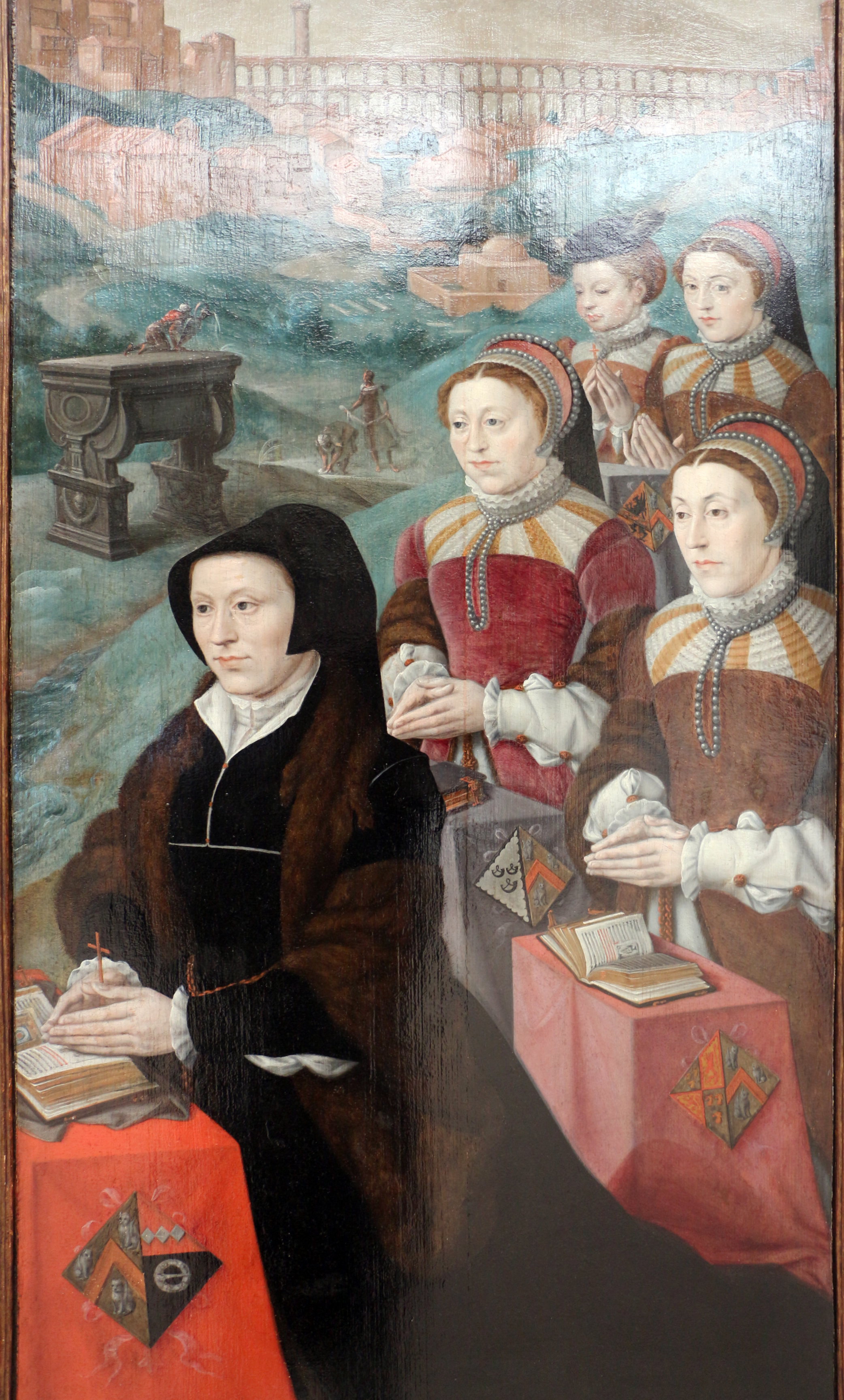 Triptych of Micault Family, Lady Livine Cats van Welle, Lady Marguerite Micault-van Briaerde